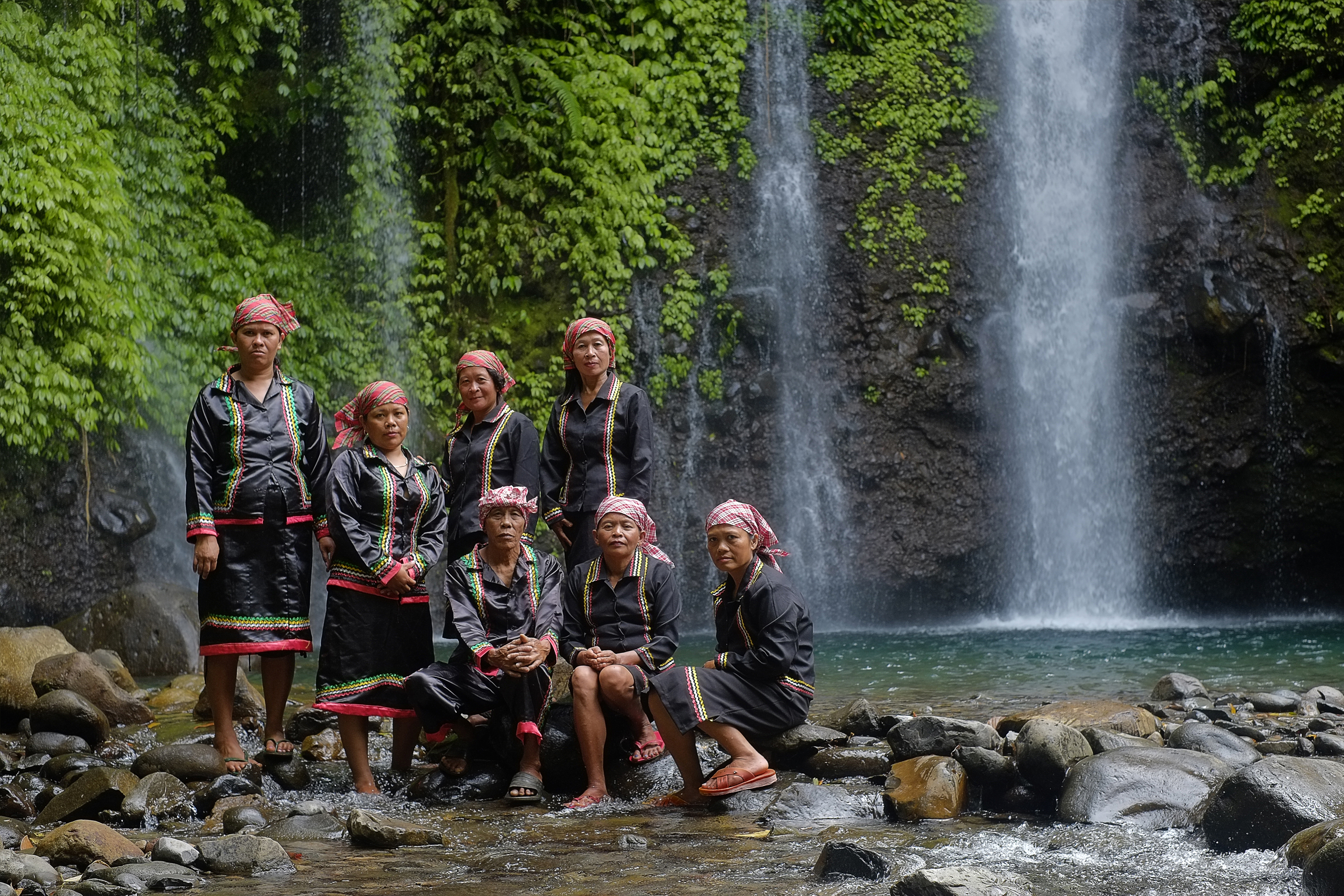 The Subanen indigenous people of Misamis Occidental which lives in the mountains of Mount Malindang.